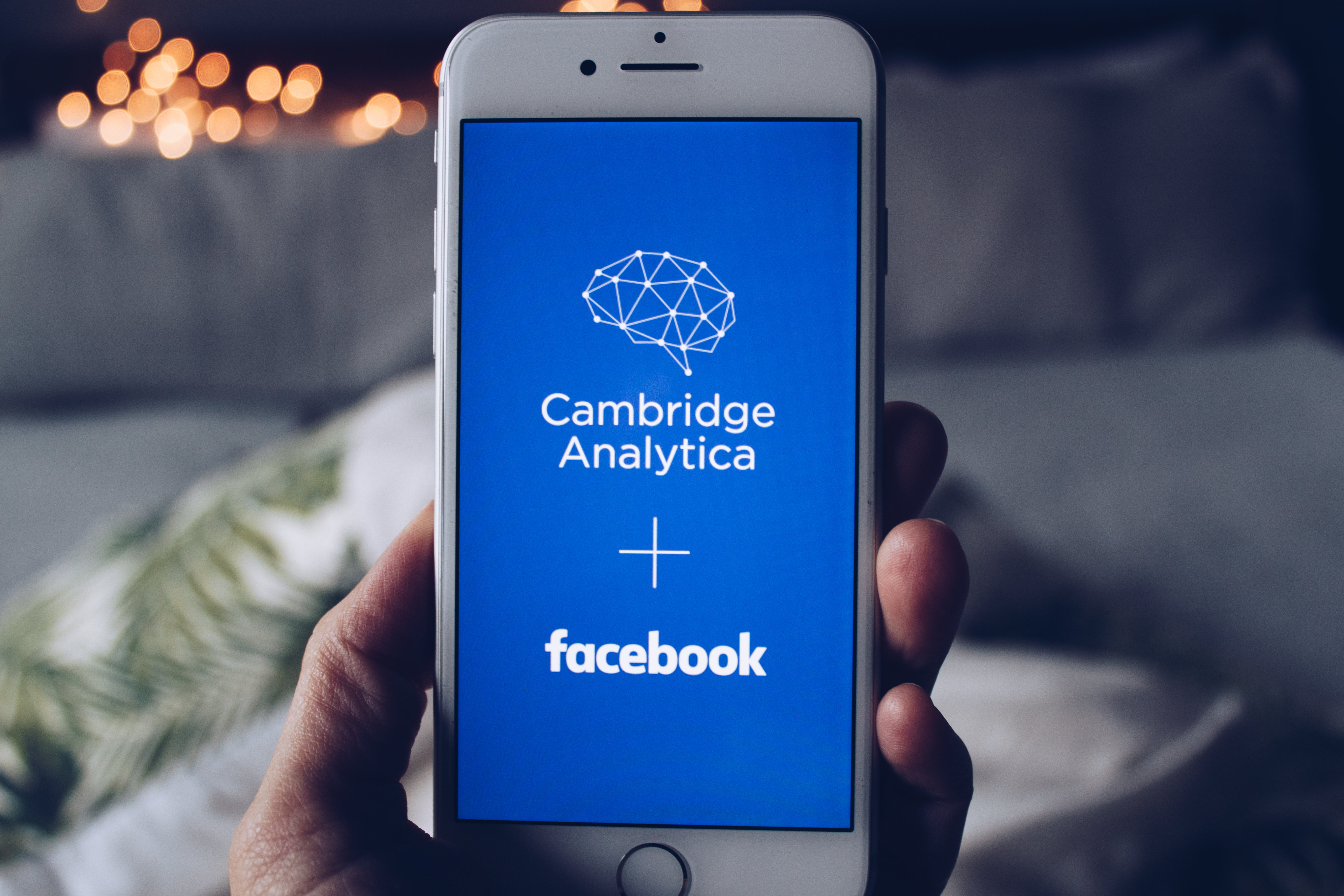 Cambridge Analytica and Facebook partnered together in the 2010's to gather information from users based on surveys they took, which was meant to be used in academia.Credit with an active link required. Image is free for usage on websites (even websites with ads) if you credit with an active link.